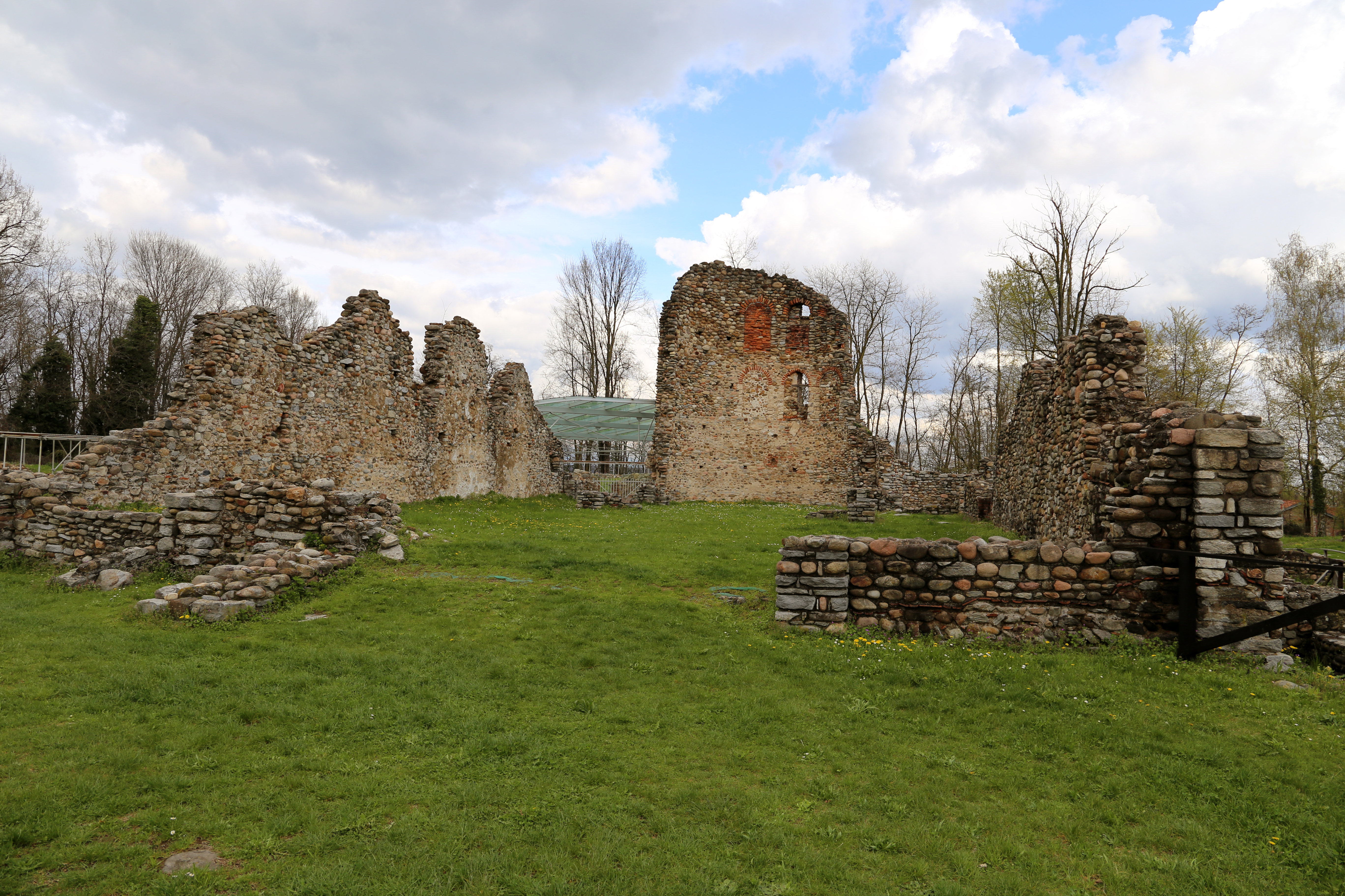 Castrum in Castelseprio